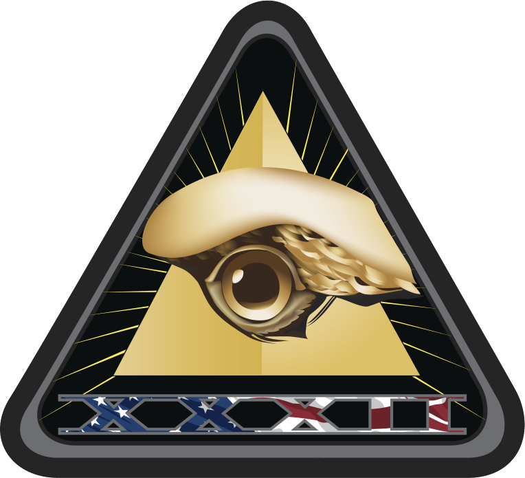 Patch of NROL-32 as released by NRO